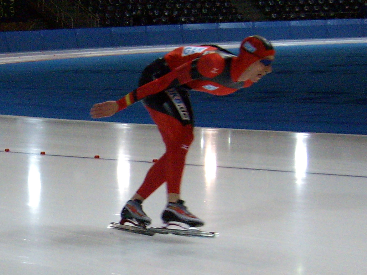 Robert Lehmann (GER) at the German Single Distanz Championship 2009 in Berlin, Germany, at the 5000 m